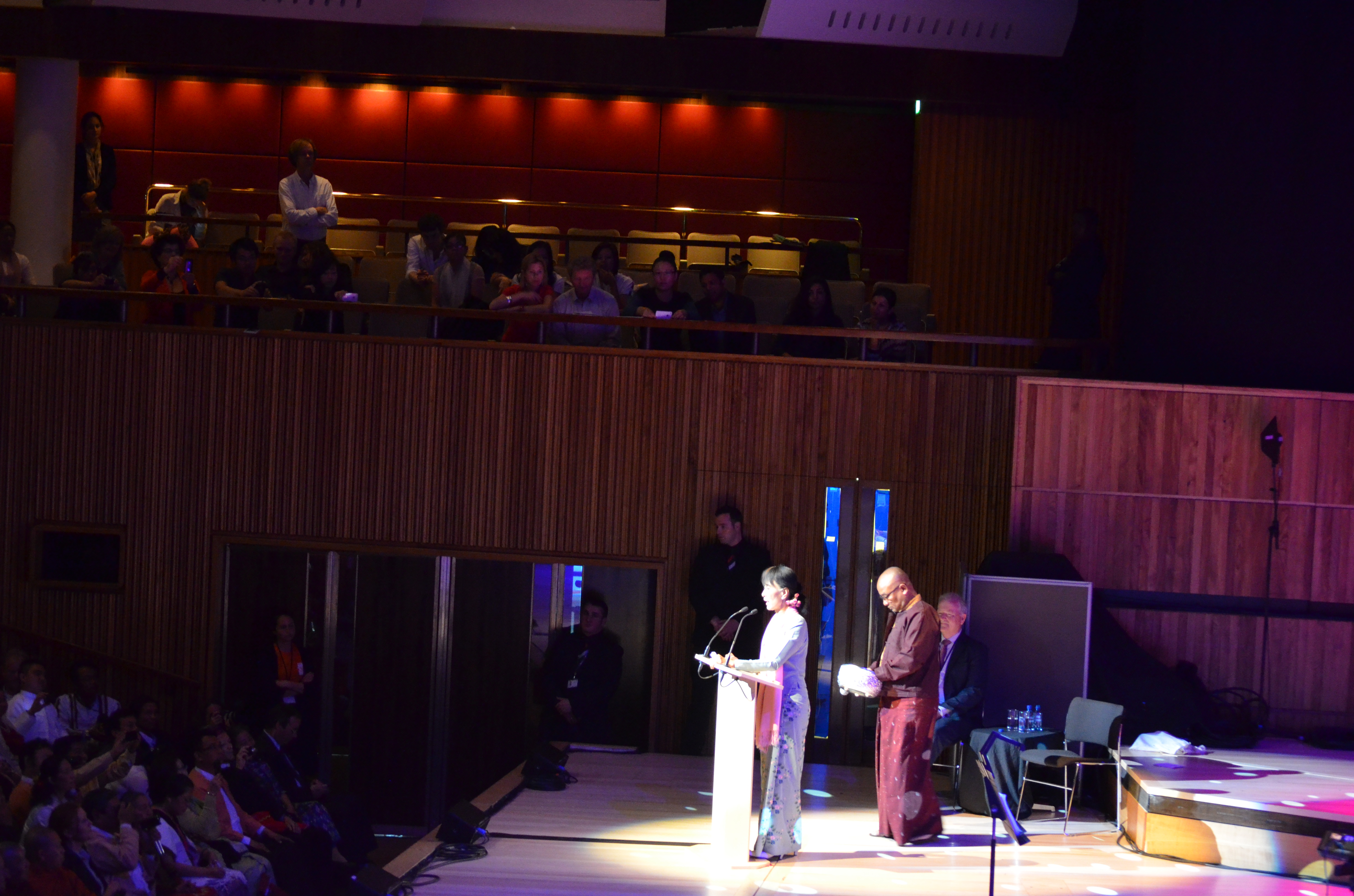 Briefing at a conference for Burmese UK, at Royal festival hall, London, 22nd June, 2012